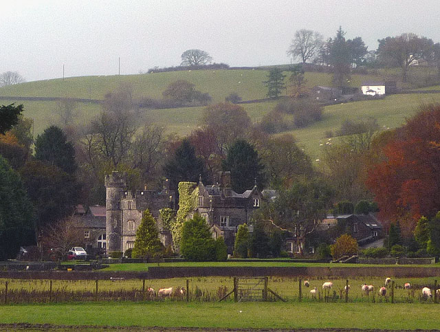 Ingmire Hall, near Sedburgh, Cumbria